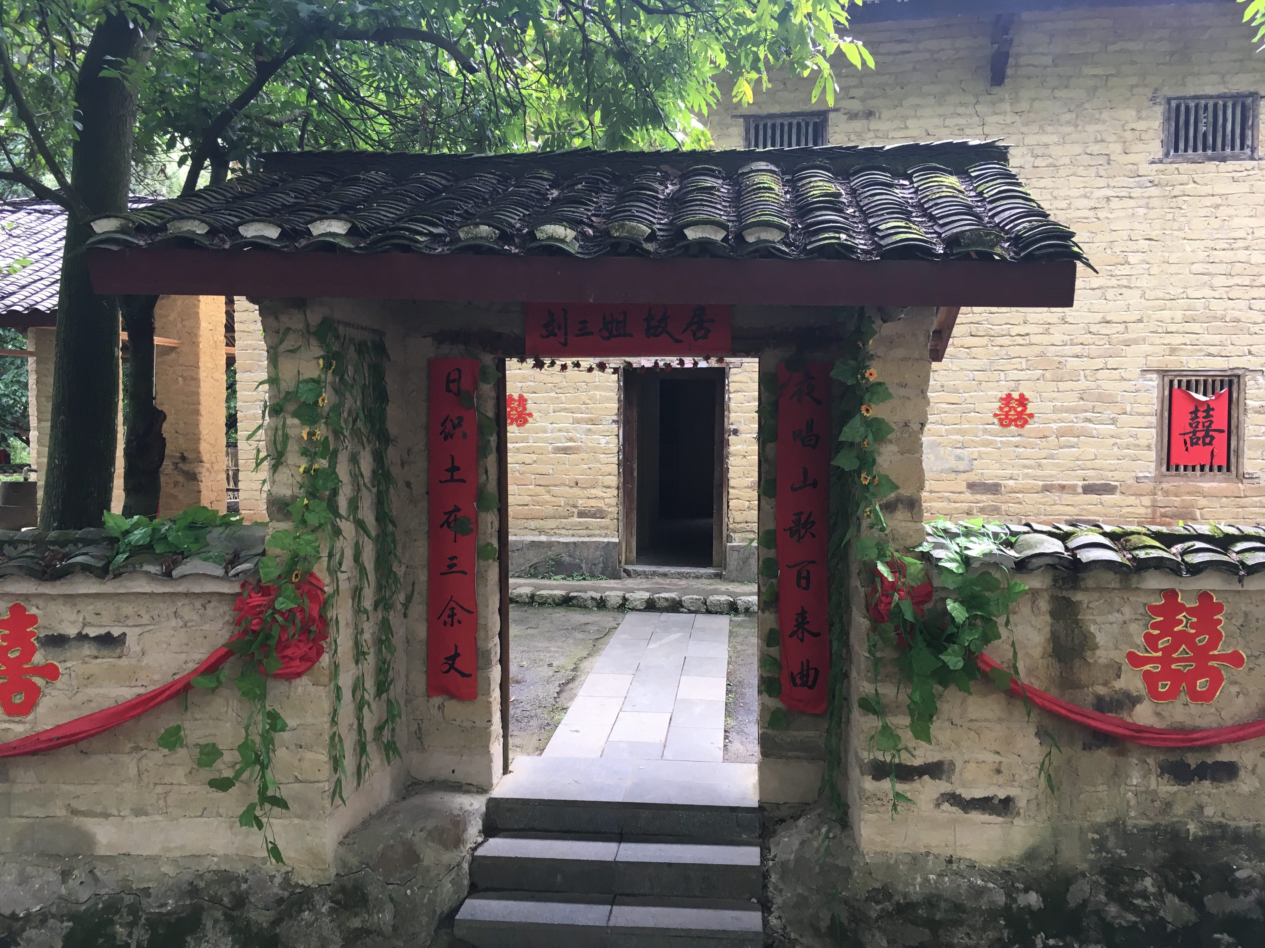 Reconstructed rural style door at Liu Sanjie Park.